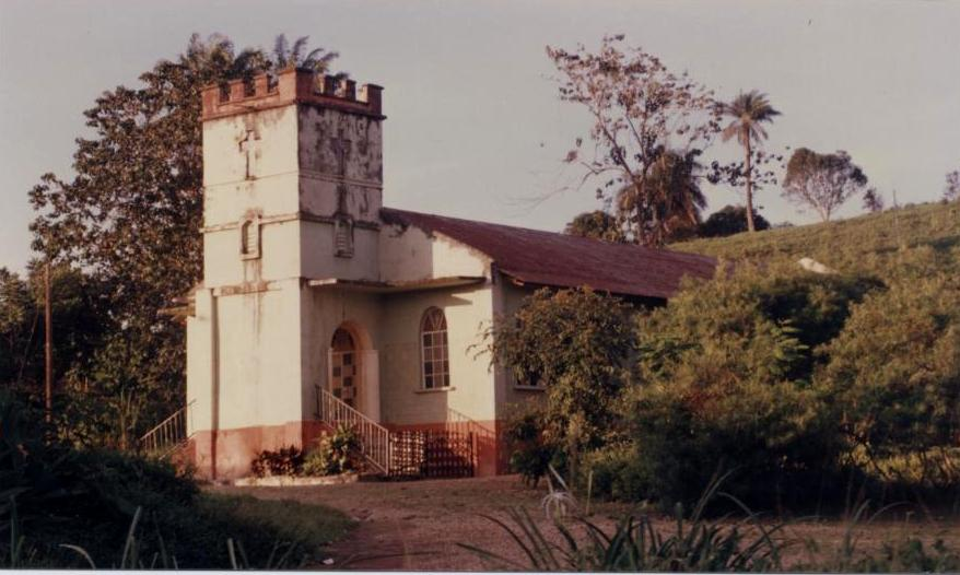 Yengema Town - the Methodist Church. Sierra Leone 1981 - 1985